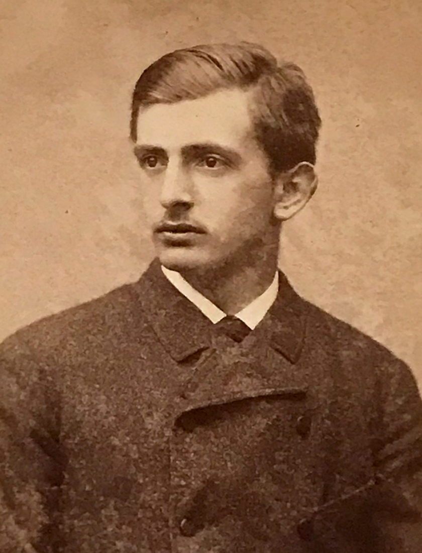 Photo of Otto Ubbelohde